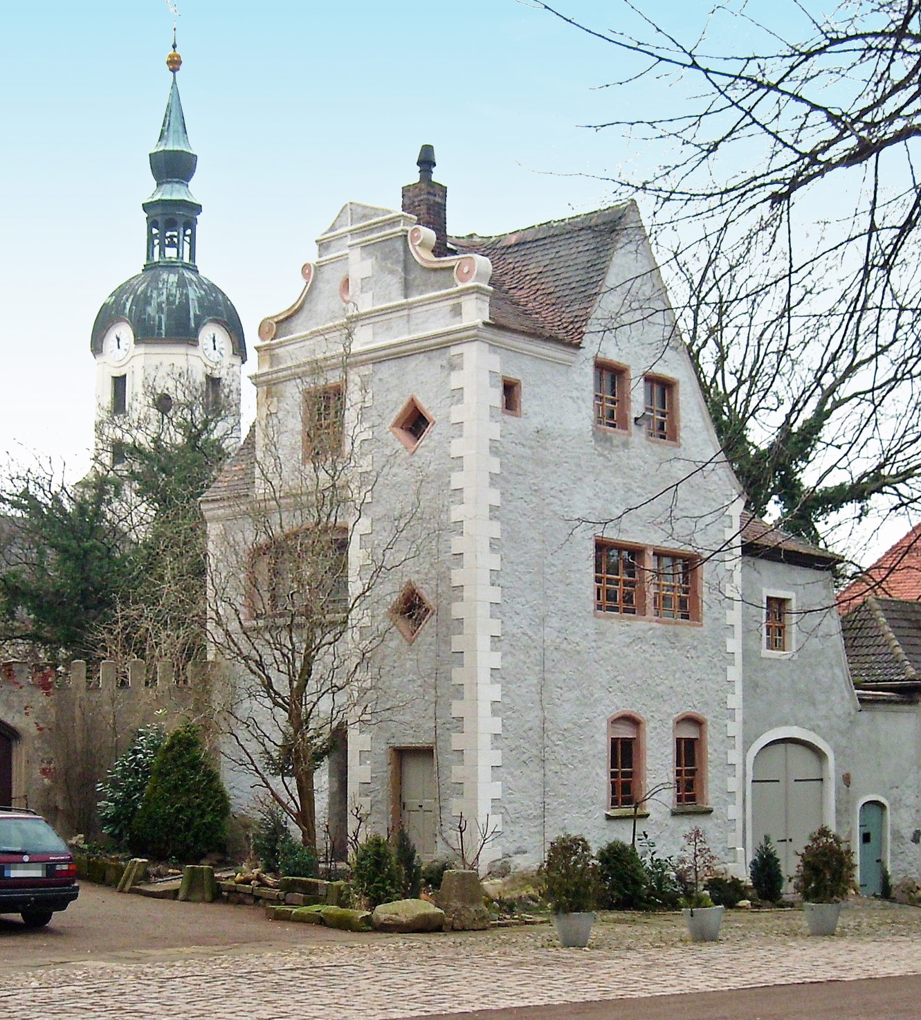 So-called Henry's Castle at Püchau Castle (Machern, Leipzig district, Saxony)